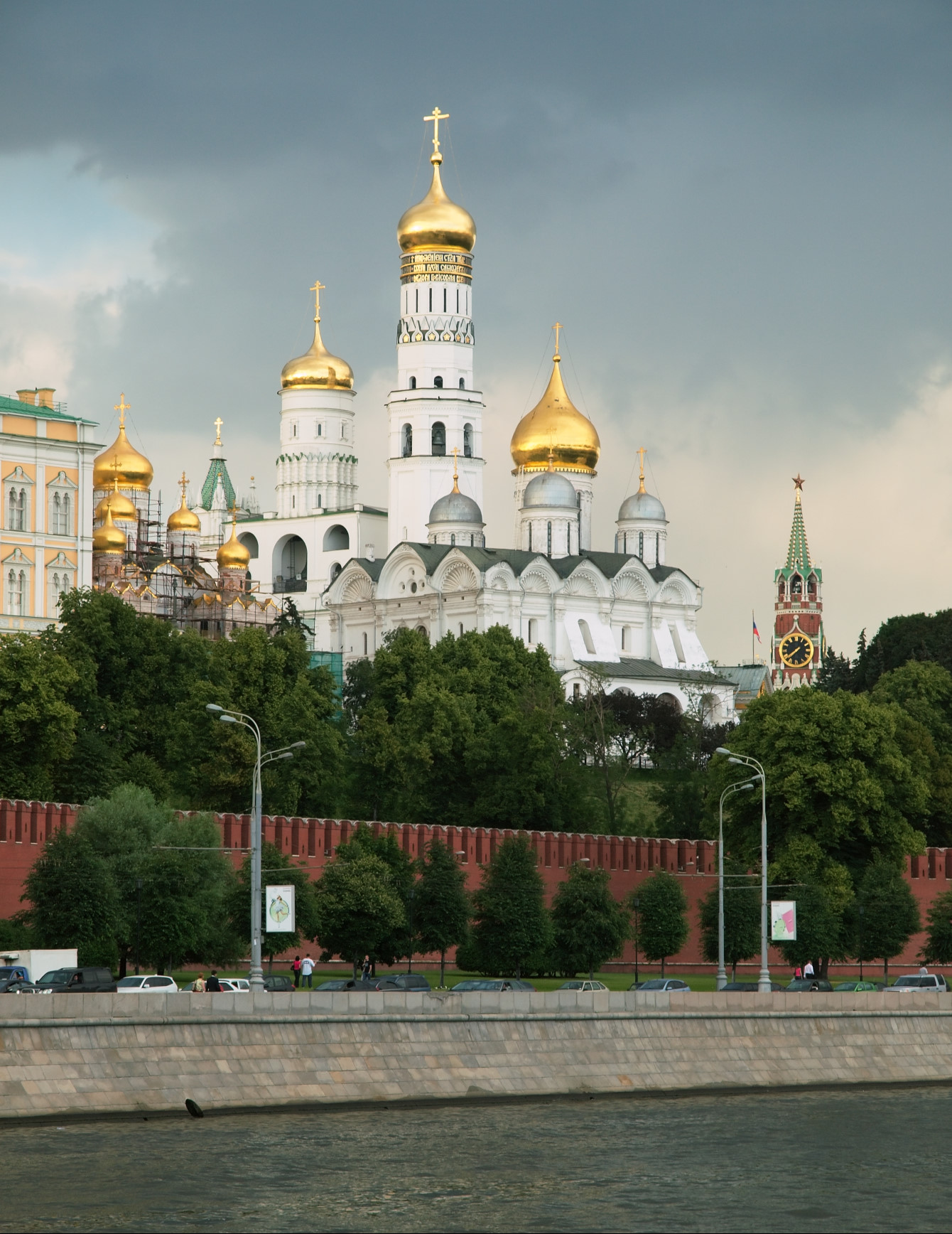 Moscow Kremlin, thunderstorm brewing